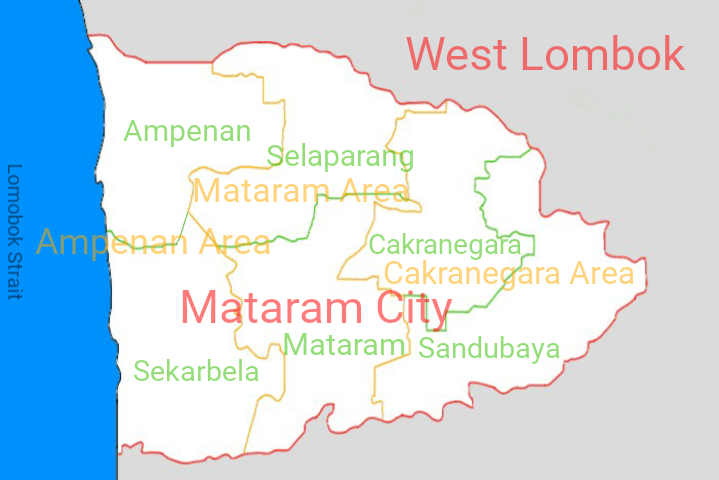 Administrative division of Mataram.